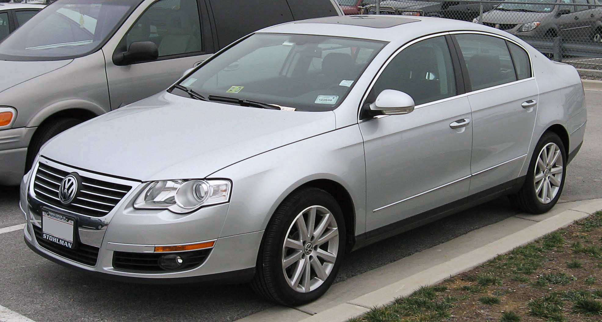 2006-2007 Volkswagen Passat photographed in USA.